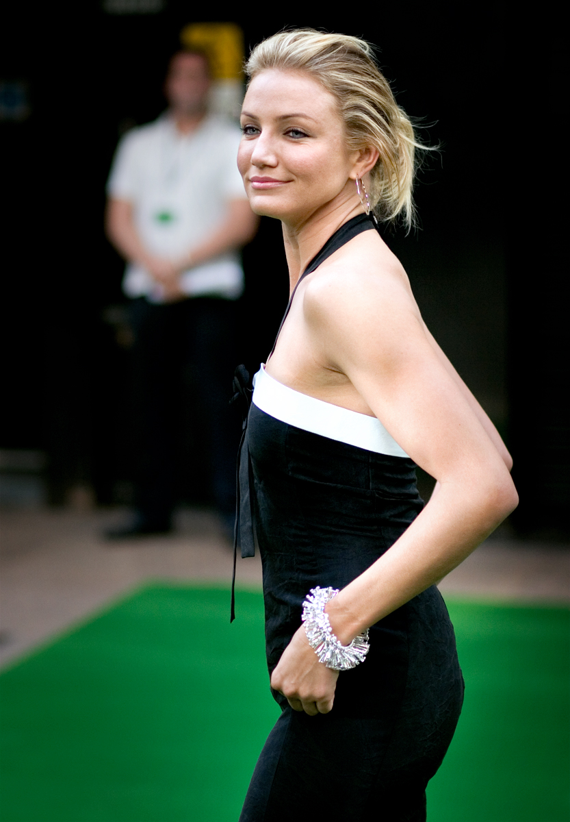 Cameron Diaz at the Shrek the Third London premiere